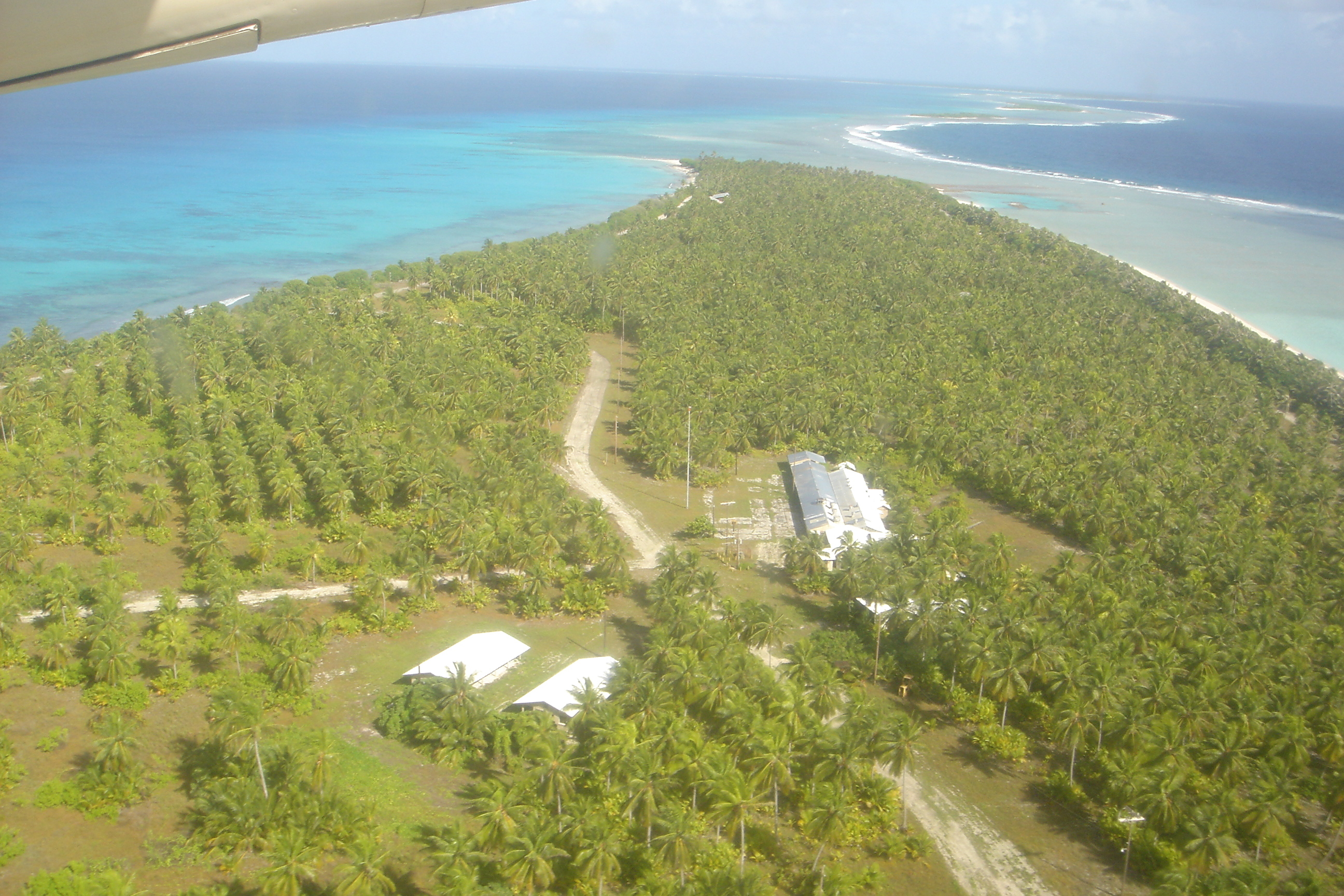 Bikini Atoll Nuclear Test Site (Marshall Islands)